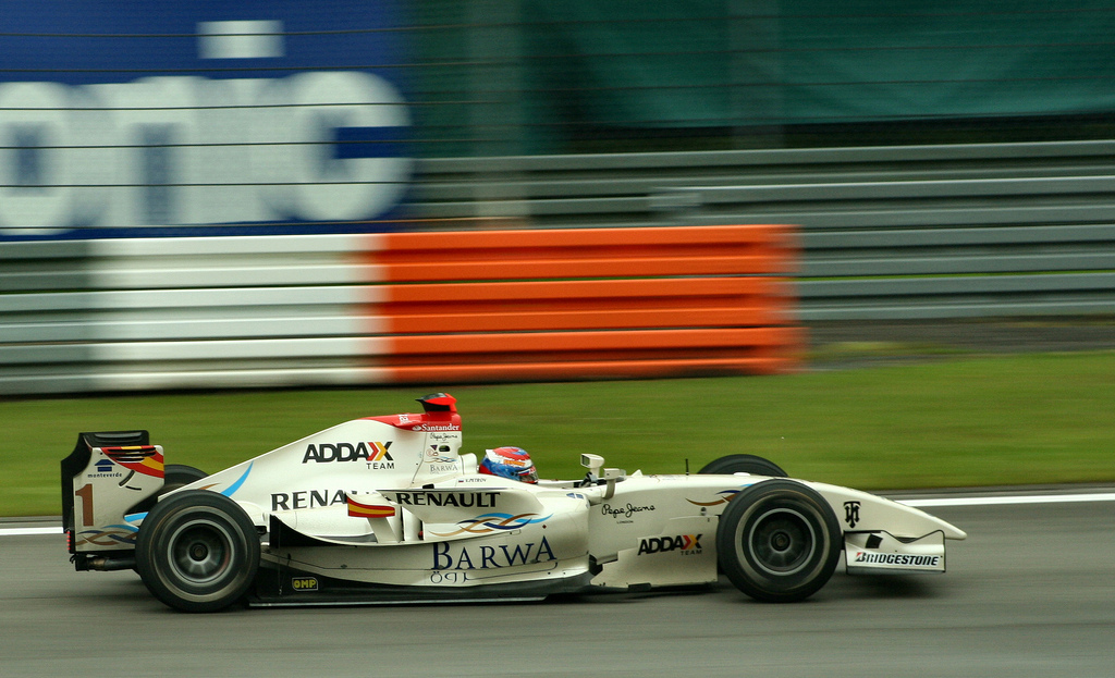 Vitaly Petrov driving for Barwa Addax at the Nürburgring round of the 2009 GP2 Series season.